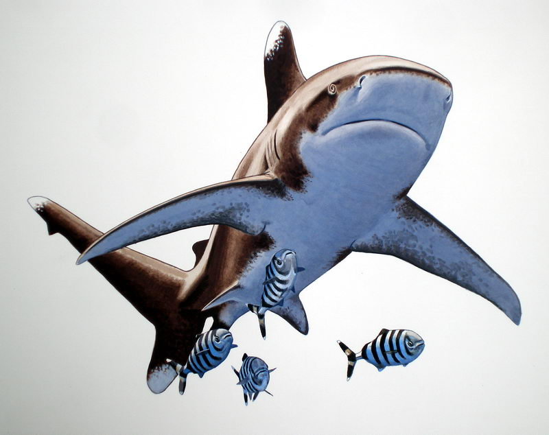 Oceanic whitetip shark, Carcharhinus longimanus, is a large pelagic shark inhabiting tropical and warm temperate seas